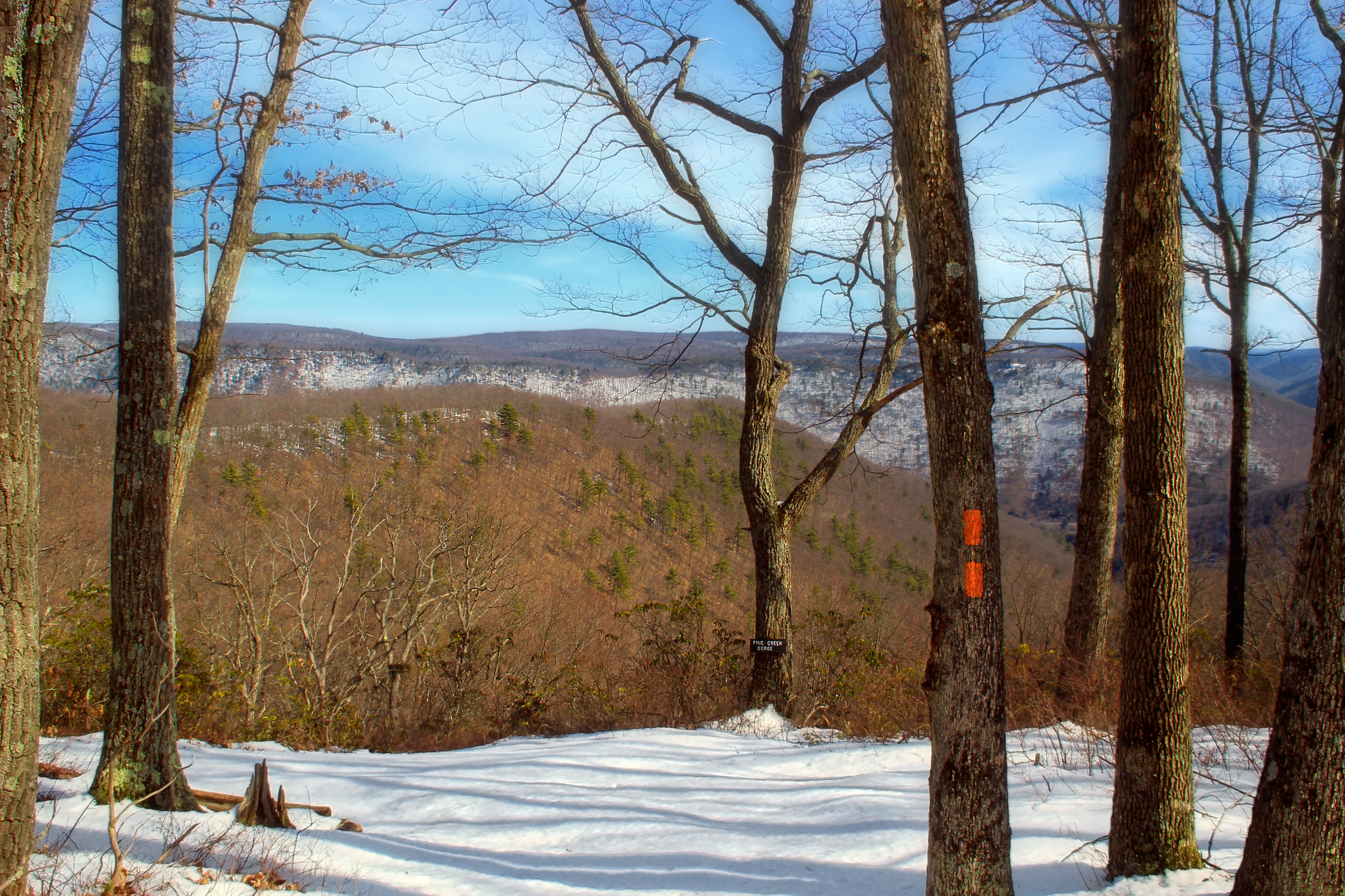 Black Forest Trail (marked by orange blazes) at Canyon Vista, Tiadaghton State Forest, Lycoming County, Pennsylvania, USA.